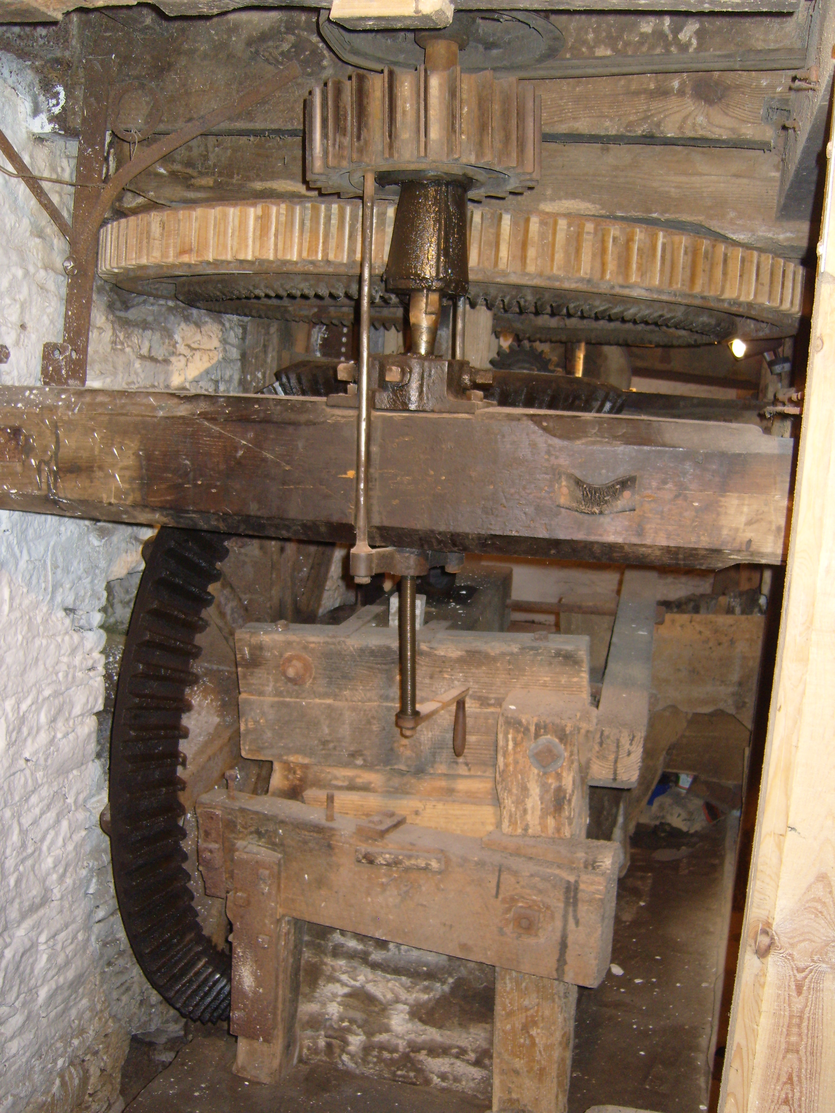 Barry Mill in Angus